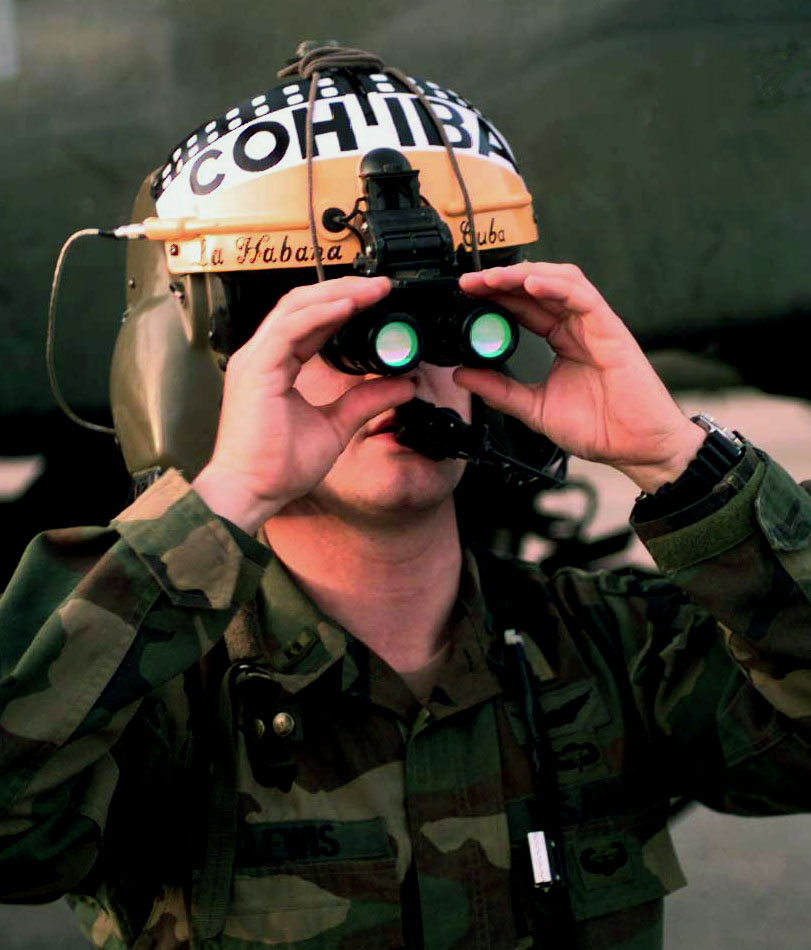 970420-A-7391B-003 Chief Warrant Officer Myke Lewis, U.S. Army, positions his night vision goggles on his flight helmet in preparation for a night helicopter mission at Alamogordo, N.M., on April 20, 1997, during Exercise Roving Sands 97. More than 20,000 service members from all branches of the armed forces of the U.S., Canada, Germany, and the Netherlands are participating in Exercise Roving Sands 97. The exercise is designed to refine their skills in operations using an integrated air defense network of ground, missile and radar early warning systems combined with tactical fighter and bomber aircraft operating in a simulated high-threat environment. Lewis is deployed for the exercise from the 3rd Battalion, 101st Aviation Regiment, Fort Campbell, Ky. DoD photo by Spc. Gary A. Bryant, U.S. Army.